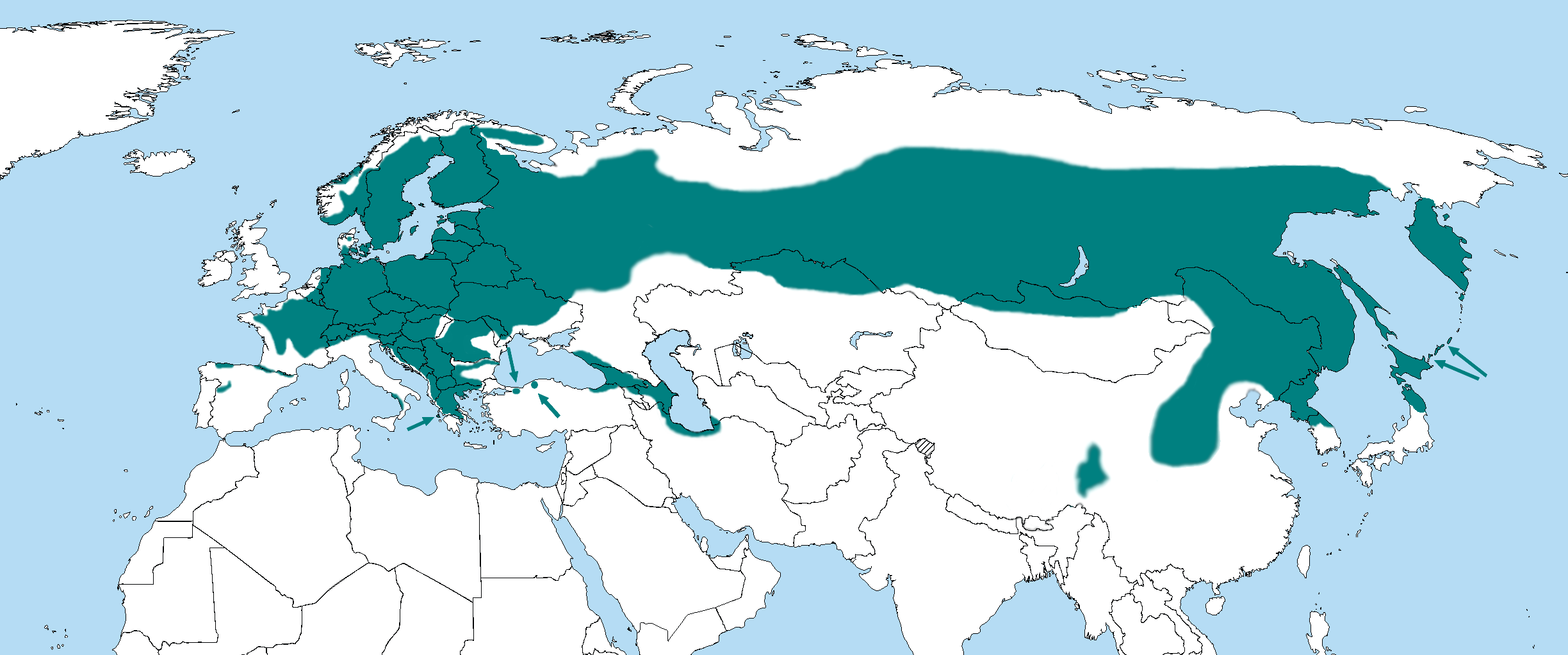 Distribution map of Dryocopus martius